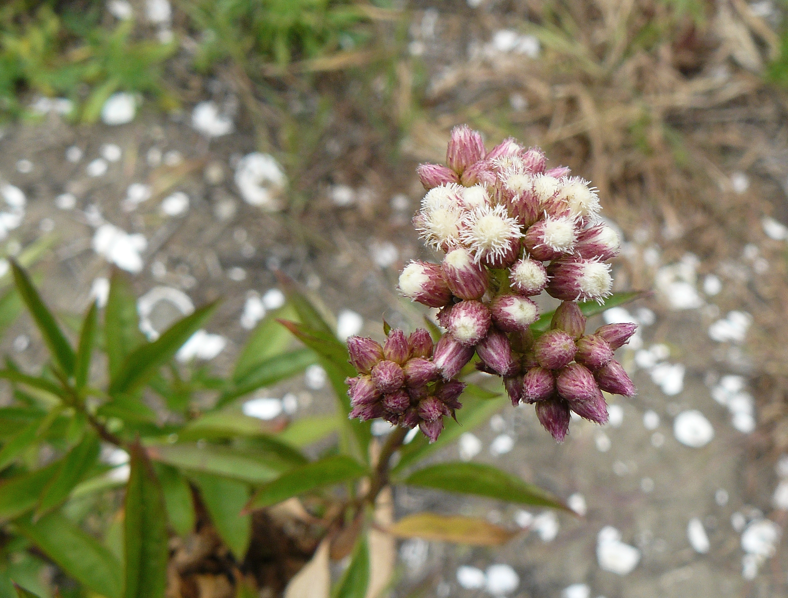 Morro Bay Salt Marsh, Morro Bay California. A perennial herb that is native to California. Family - Asteraceae